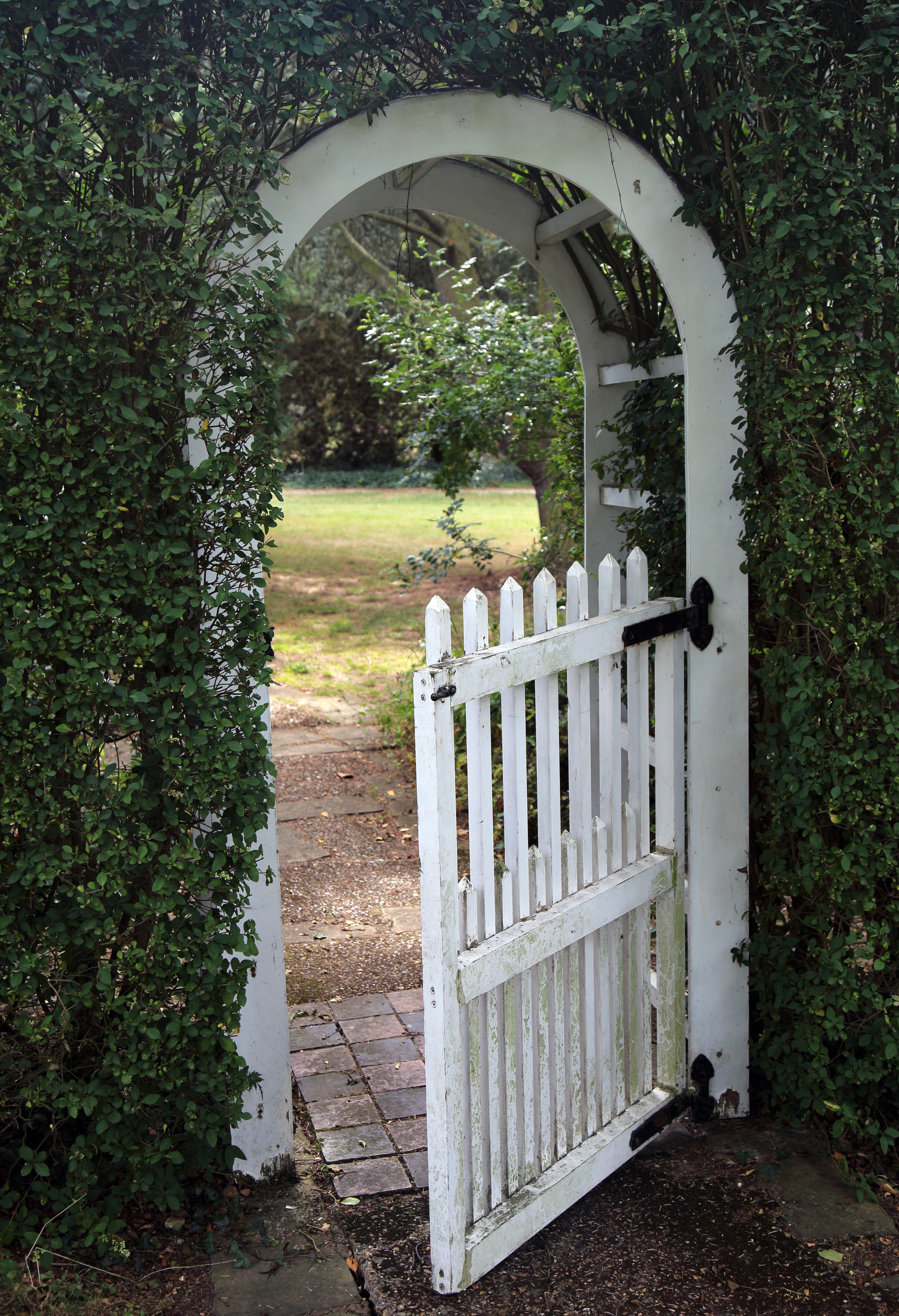 A garden arch incorporating a trellis and gate on a path through a shrub hedge at The Gibberd Garden, in the Harlow District of Essex, England